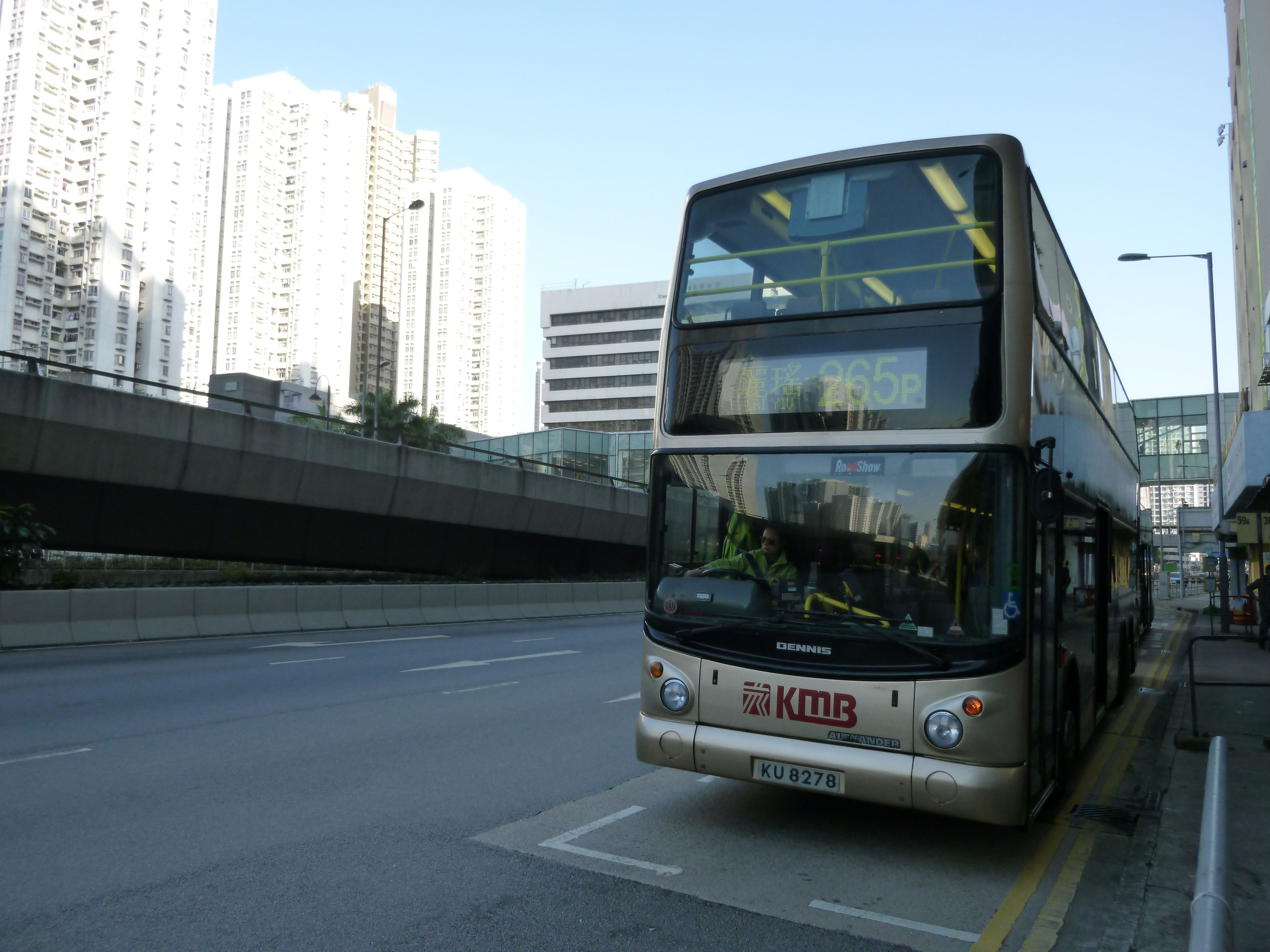 KMB Route 265P (Kwai Chung Road)中文（香港）: 九巴265P線 (葵涌道)